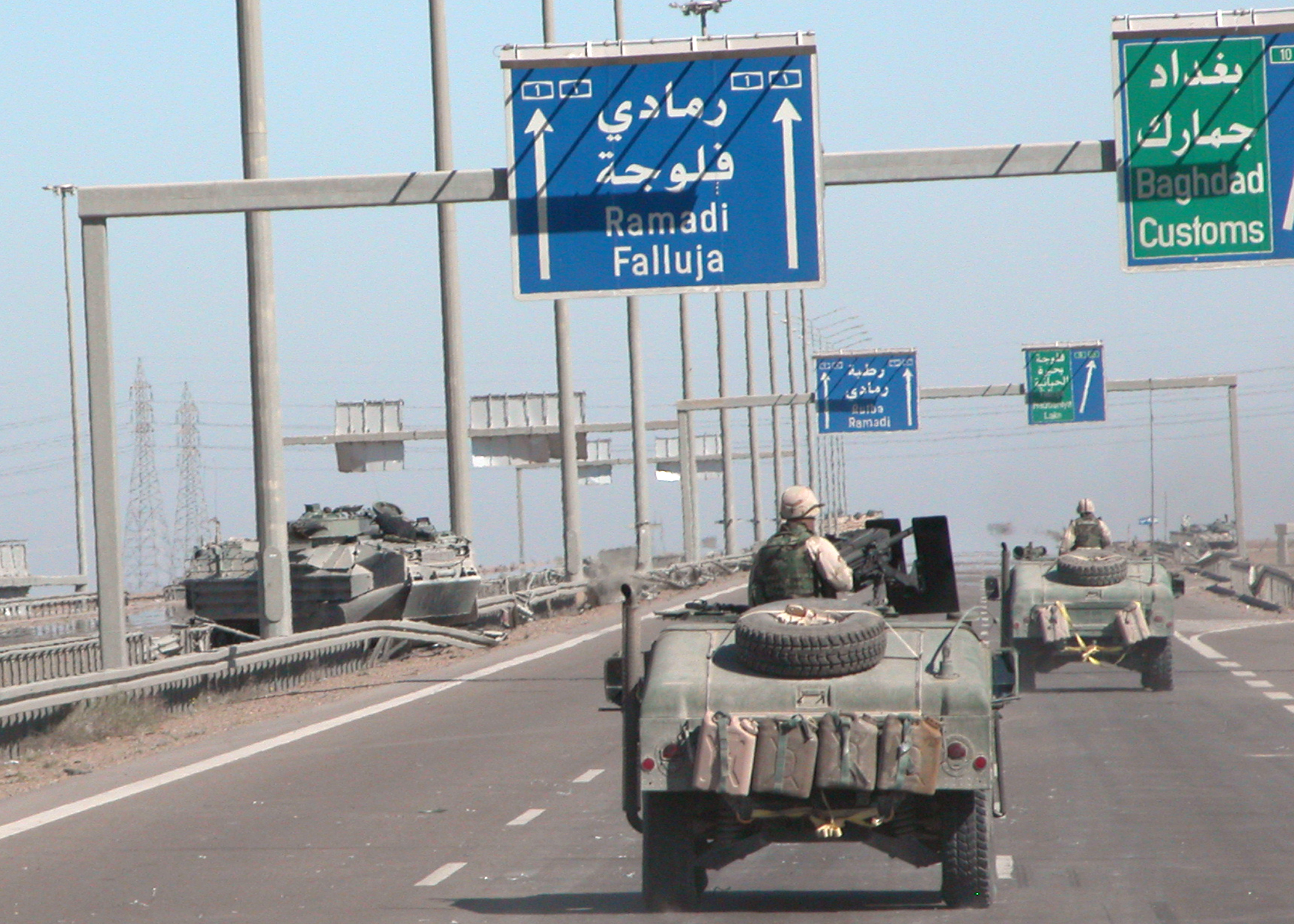 Falluja, Iraq (Apr. 6, 2004) - The Naval Mobile Construction Battalion Seventy Four (NMCB-74), Tactical Movement Team (TMT), escorts a construction crew convoy through Falluja, Iraq. NMCB-74 is currently on deployment in Central Iraq in support of Operation Iraqi Freedom (OIF). U.S. Navy photo by Photographer's Mate 2nd Class Eric Powell (RELEASED)